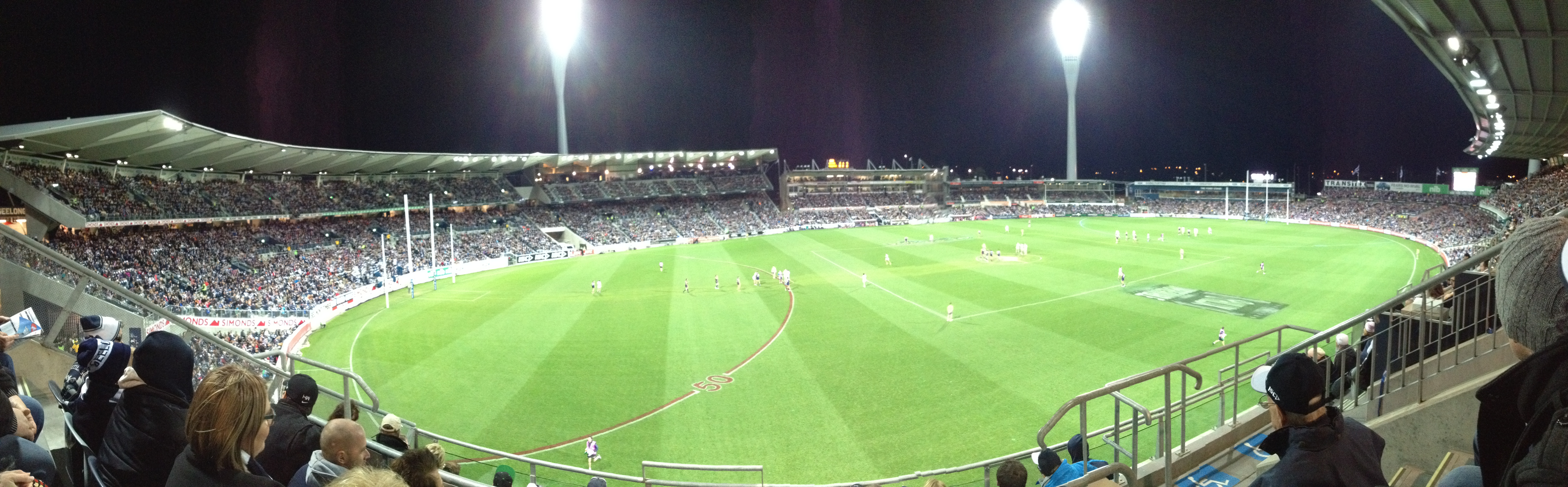 Simonds Stadium playing host to an AFL match. Geelong vs. Fremantle, Saturday 9 August 2014. Kardinia Park (stadium)